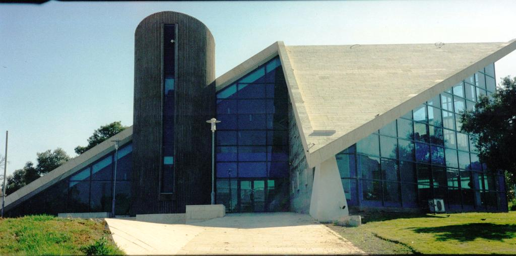 Geography of Israel